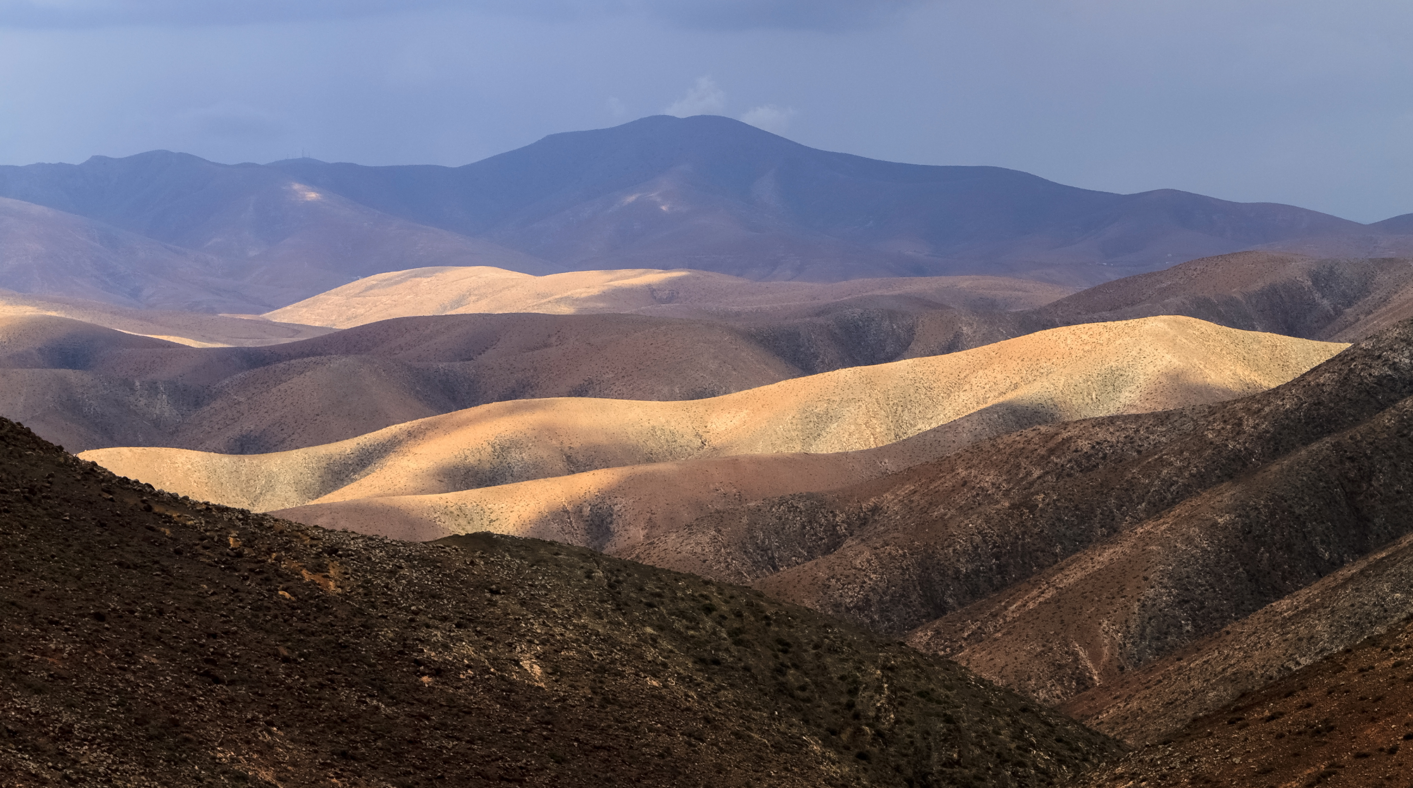 Foothills of the Montaña de la Fuente, Pájara, Fuerteventura, Canary Islands, Spain.